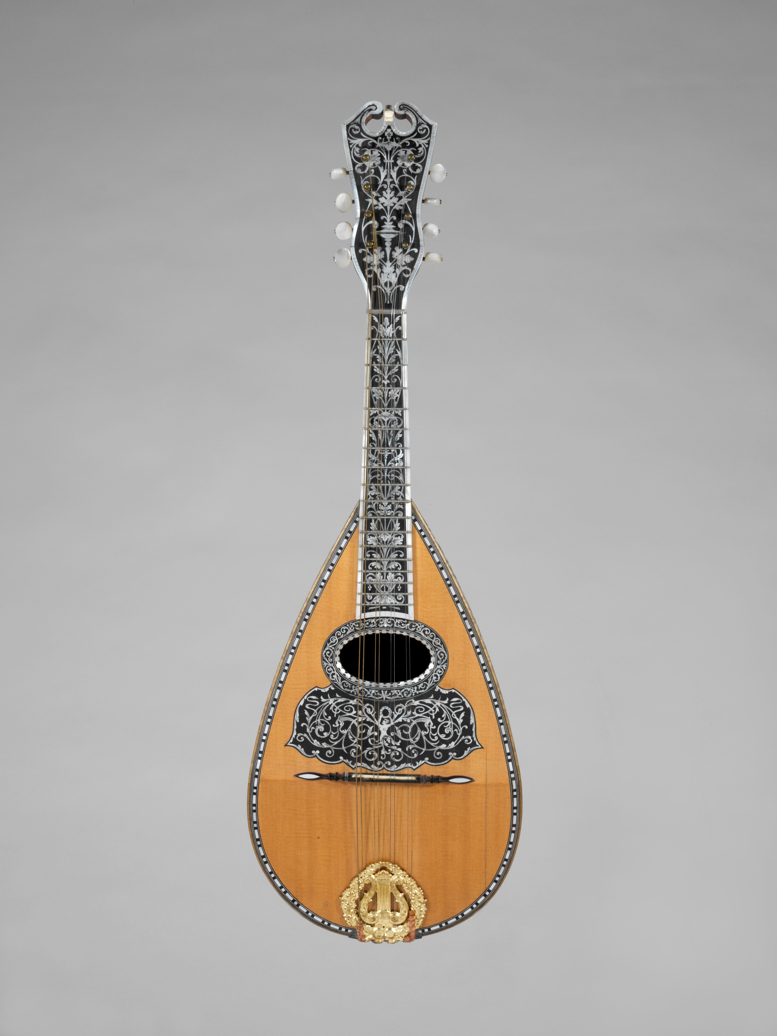 American; Mandolin; Chordophone-Lute-plucked-fretted